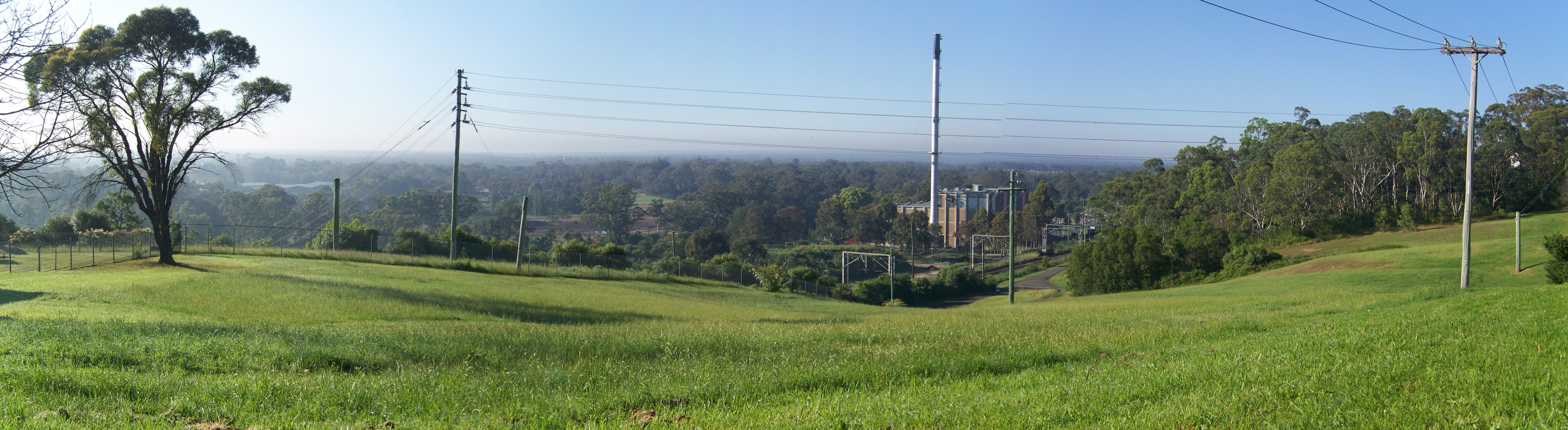 Casula powerhouse arts center and Casula train station, viewed from Buckland Road